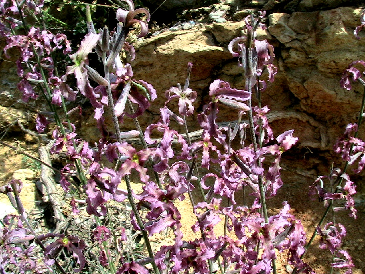 Matthiola fruticulosa. In Torà (Segarra-Catalunya). To 580 m. altitude